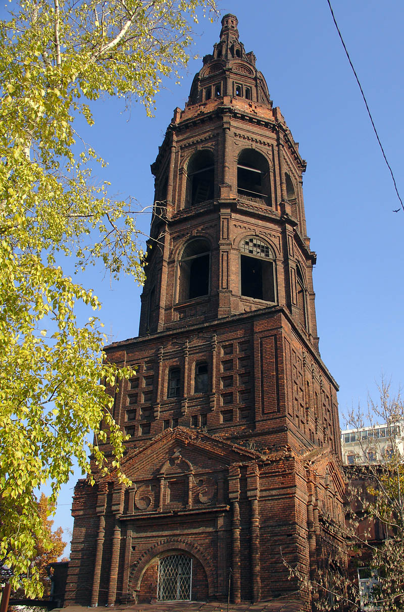 Belltower of St. Nikola, still owned and occupied by Soyuzmultfilm studios